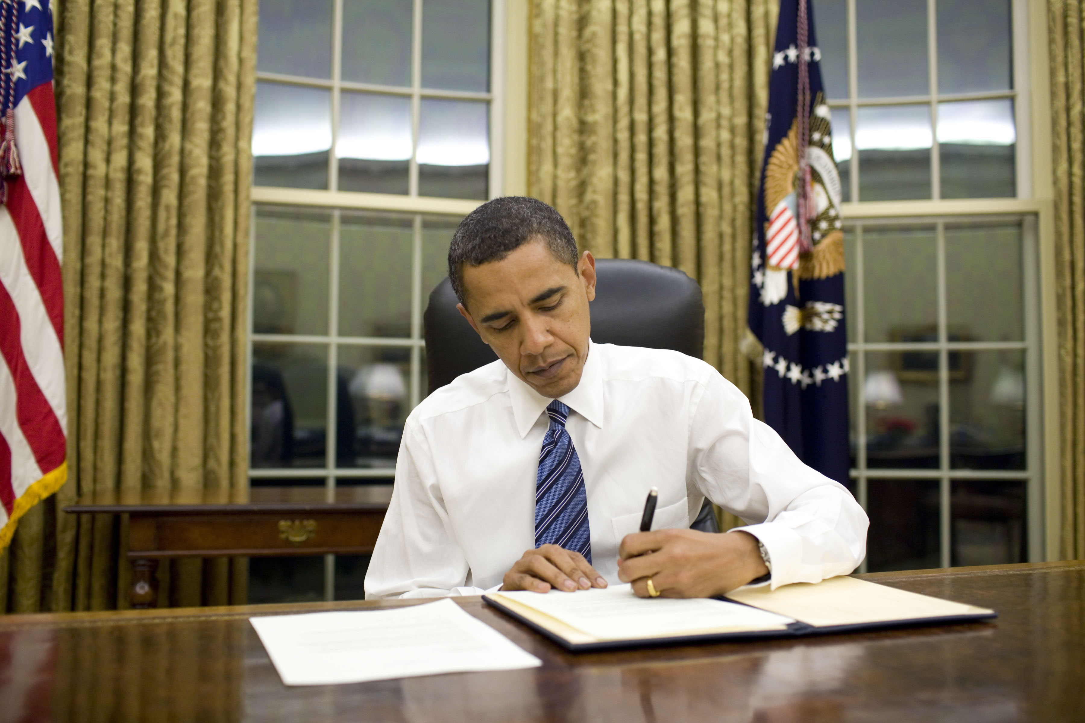 Barack Obama signs an Emergency Declaration for the State of Arkansas Wednesday evening, Jan. 28, 2009 in the Oval Office, and also signed a declaration for the Commonwealth of Kentucky.